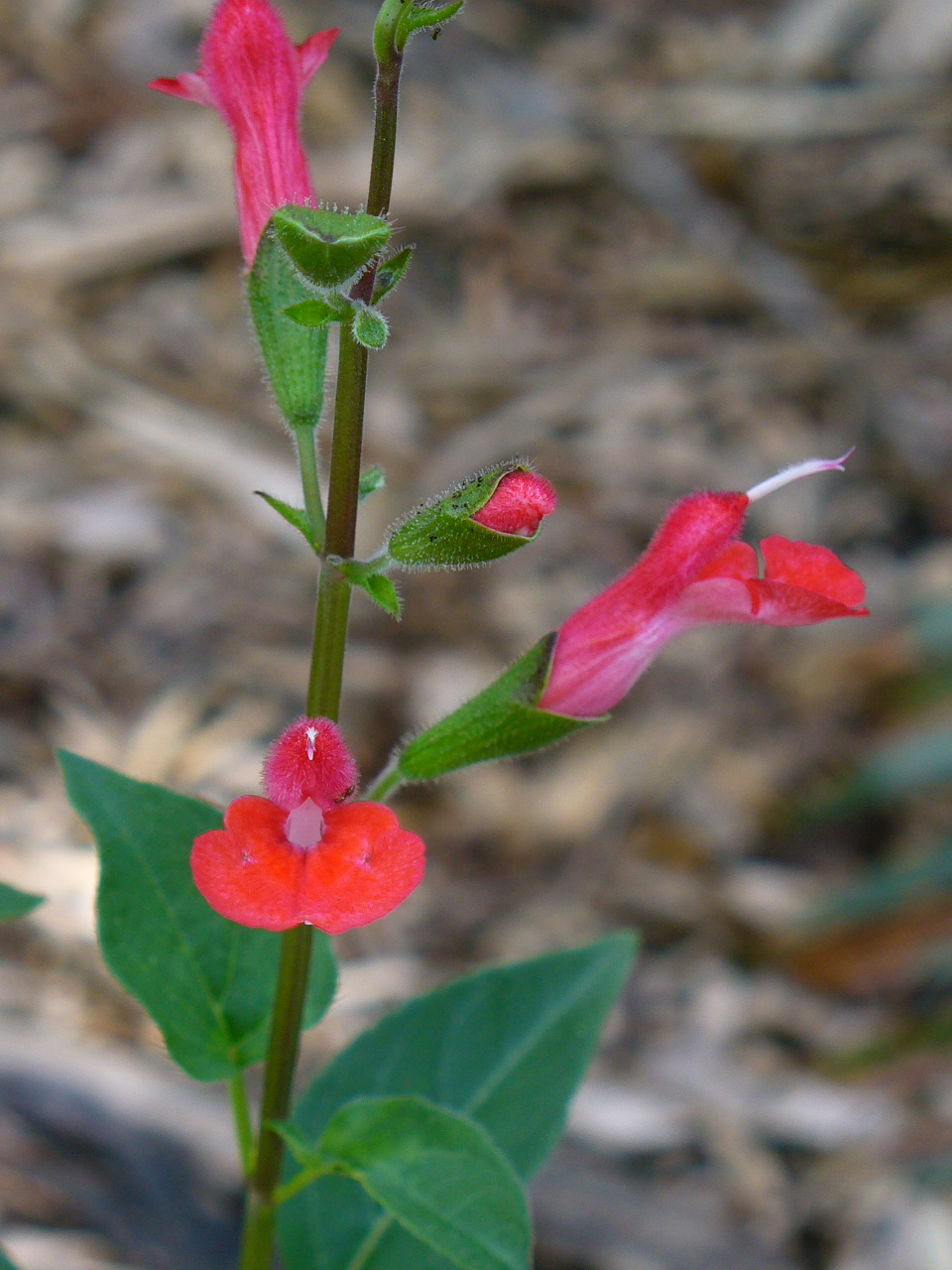 South Miami, Florida